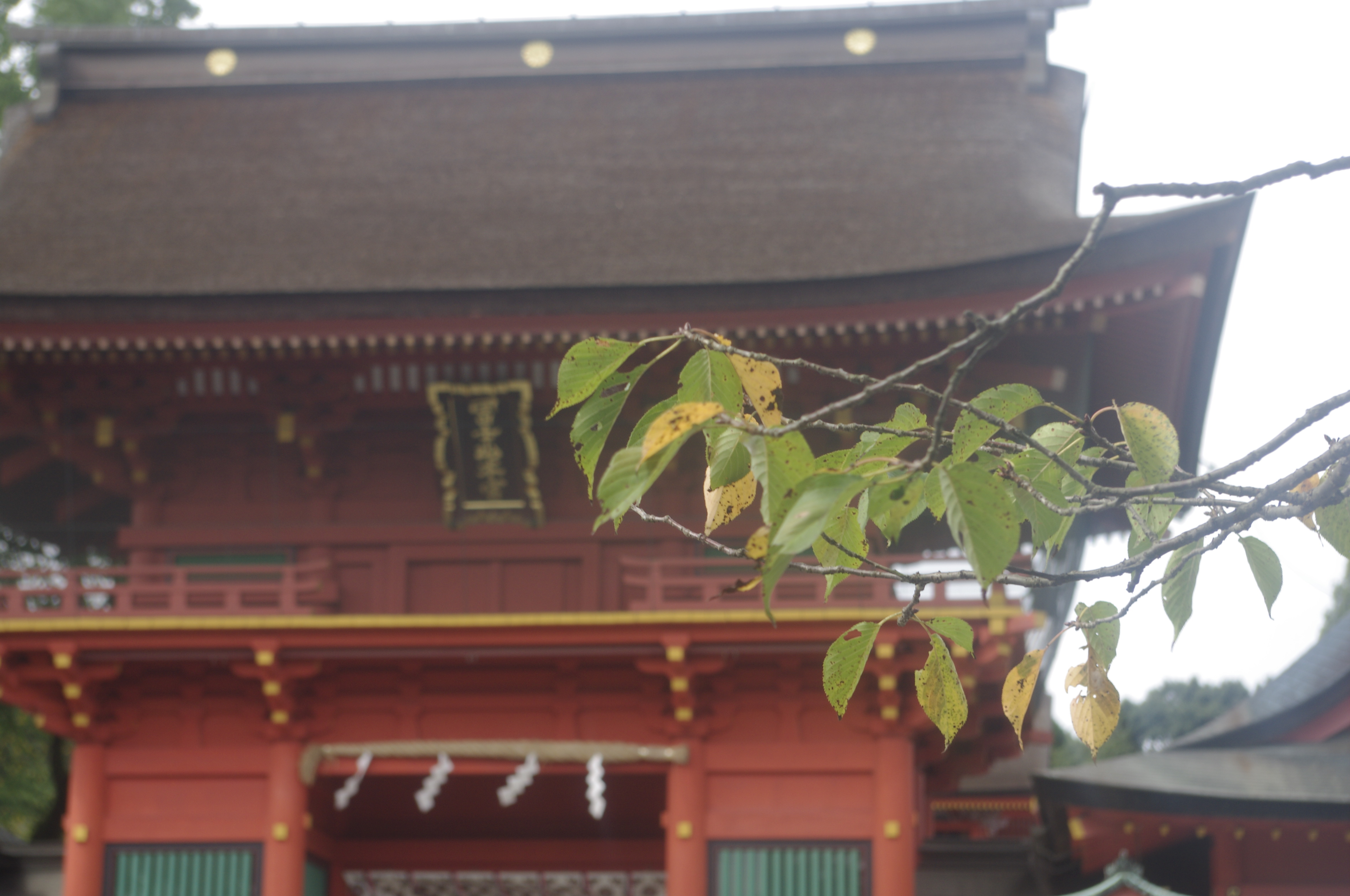 Sengen Jinja Shurine at Fujinomiya City,Japan. A sample of Bokeh photography.